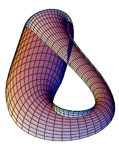 Cut-away version of an immersion of a Klein bottle into R3. Made with Mathematica. For a non-cut-away version see Image:KleinBottle-01.png.